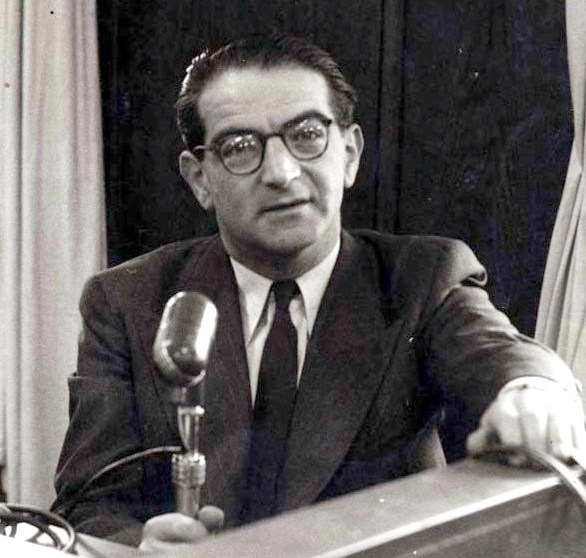 Rudolf Kastner (1906–1957) in broadcasting booth at Kol Yisrael, official Israeli state radio station, where he hosted a program in Hungarian.